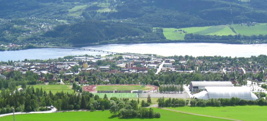 Stampesletta with Håkons Hall (front) and Kristins Hall (back) to the right. Lillehammer and Gudbrandsdalslåen in the background